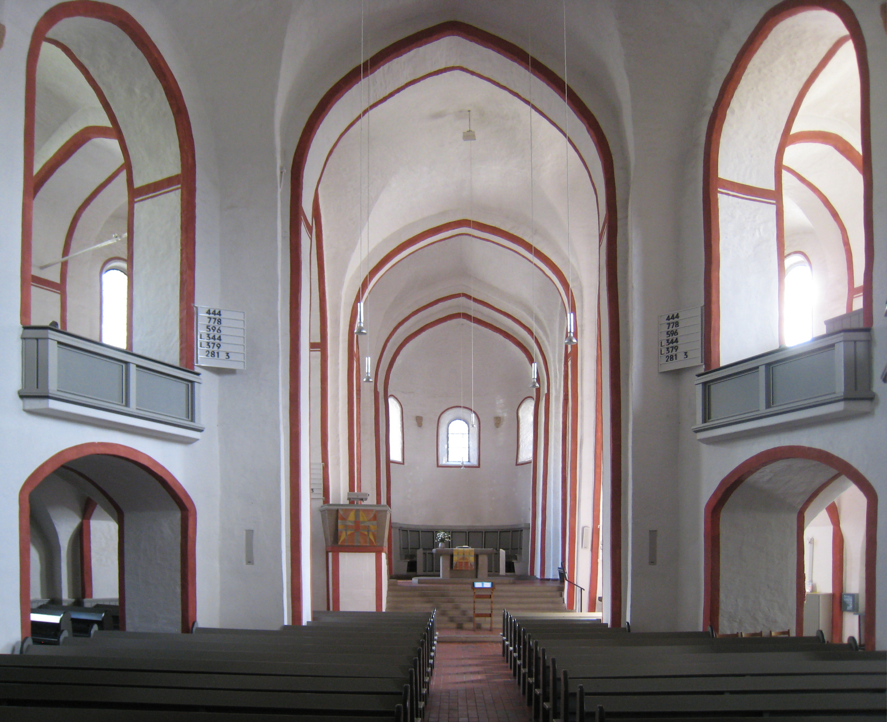 View to the choir This is a photograph of an architectural monument.It is on the list of cultural monuments of Siegen